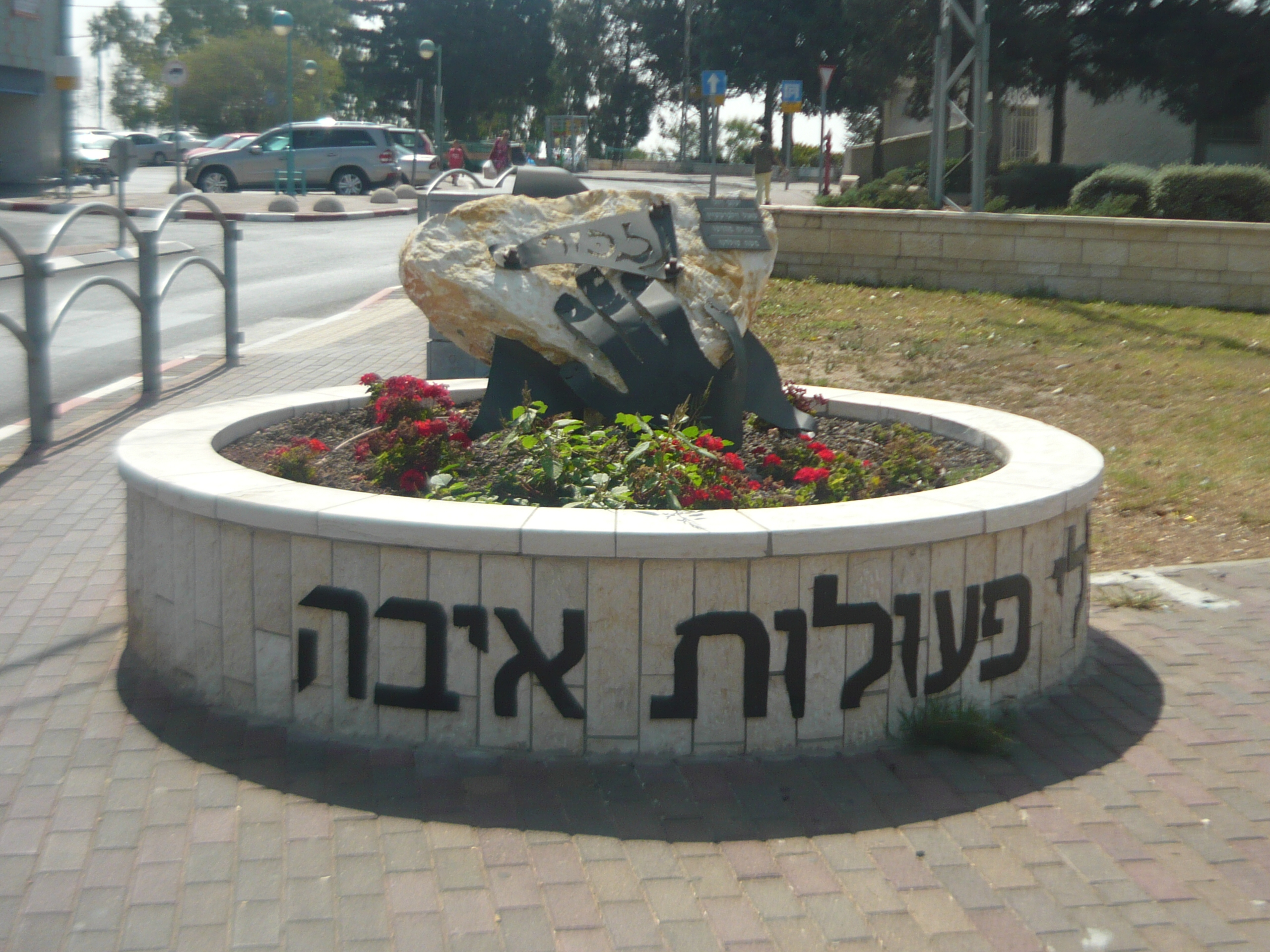 memorial for terror victims in Nazareth illit אנדרטה לנפגעי פעולות איבה בנצרת עילית